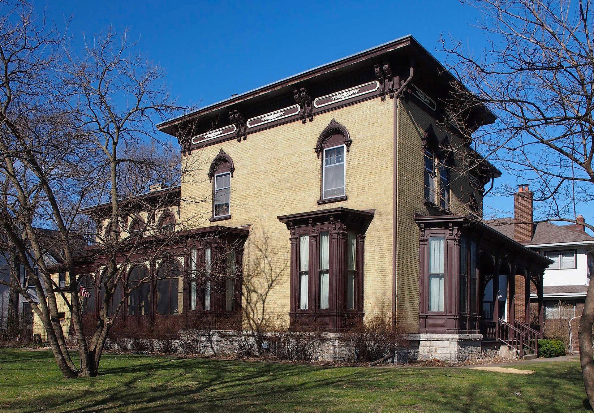 Woodbury Fisk House, 424 5th St SE, Minneapolis, Minnesota, USA. Viewed from the east.